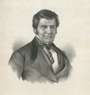 Albert Newsam (Philadelphia, ca. 1850). Crayonlithograph.